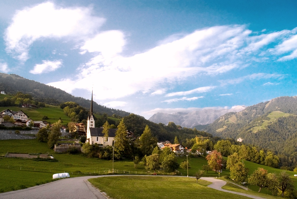 Seewis, Graubünden